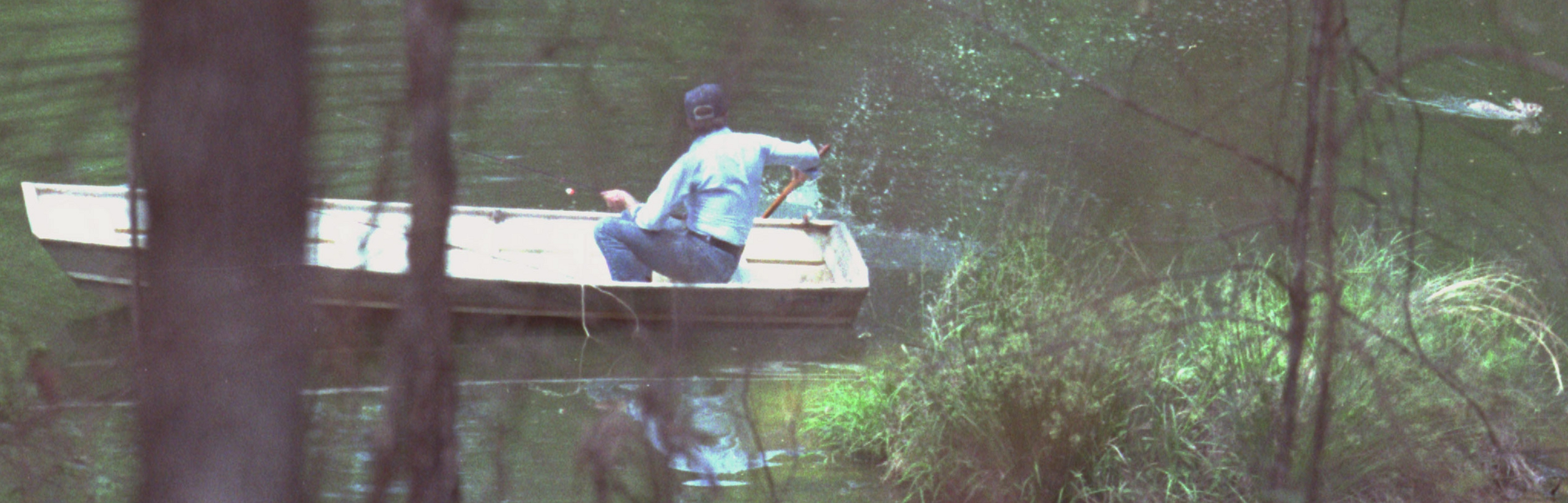 President of the United States Jimmy Carter in a boat in Plains, Georgia, chasing away a swamp rabbit (Sylvilagus aquaticus). This led to the "Jimmy Carter rabbit incident".